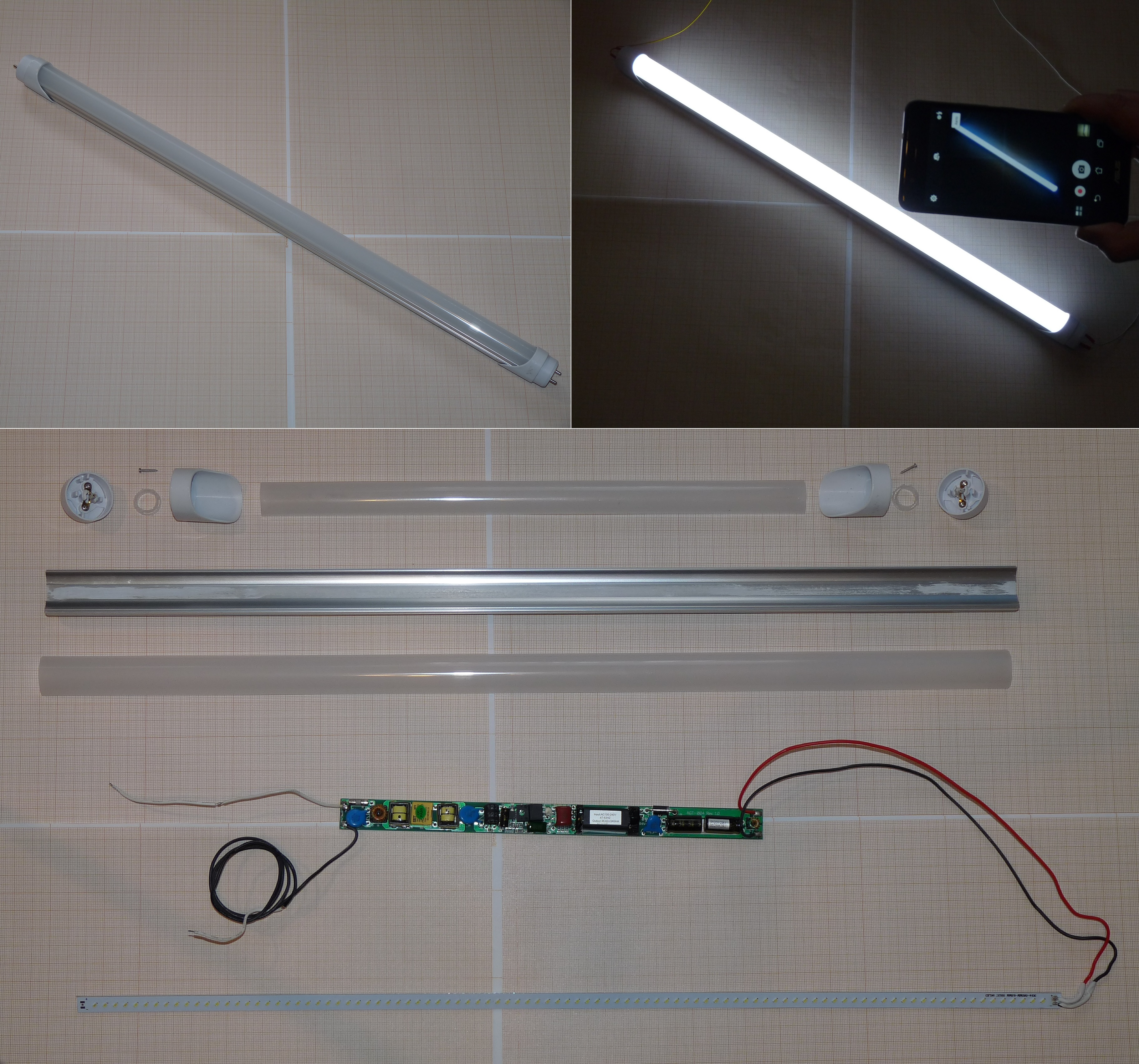 Linear LED light bulb with T8 socket